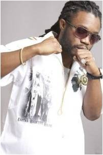 Headshot